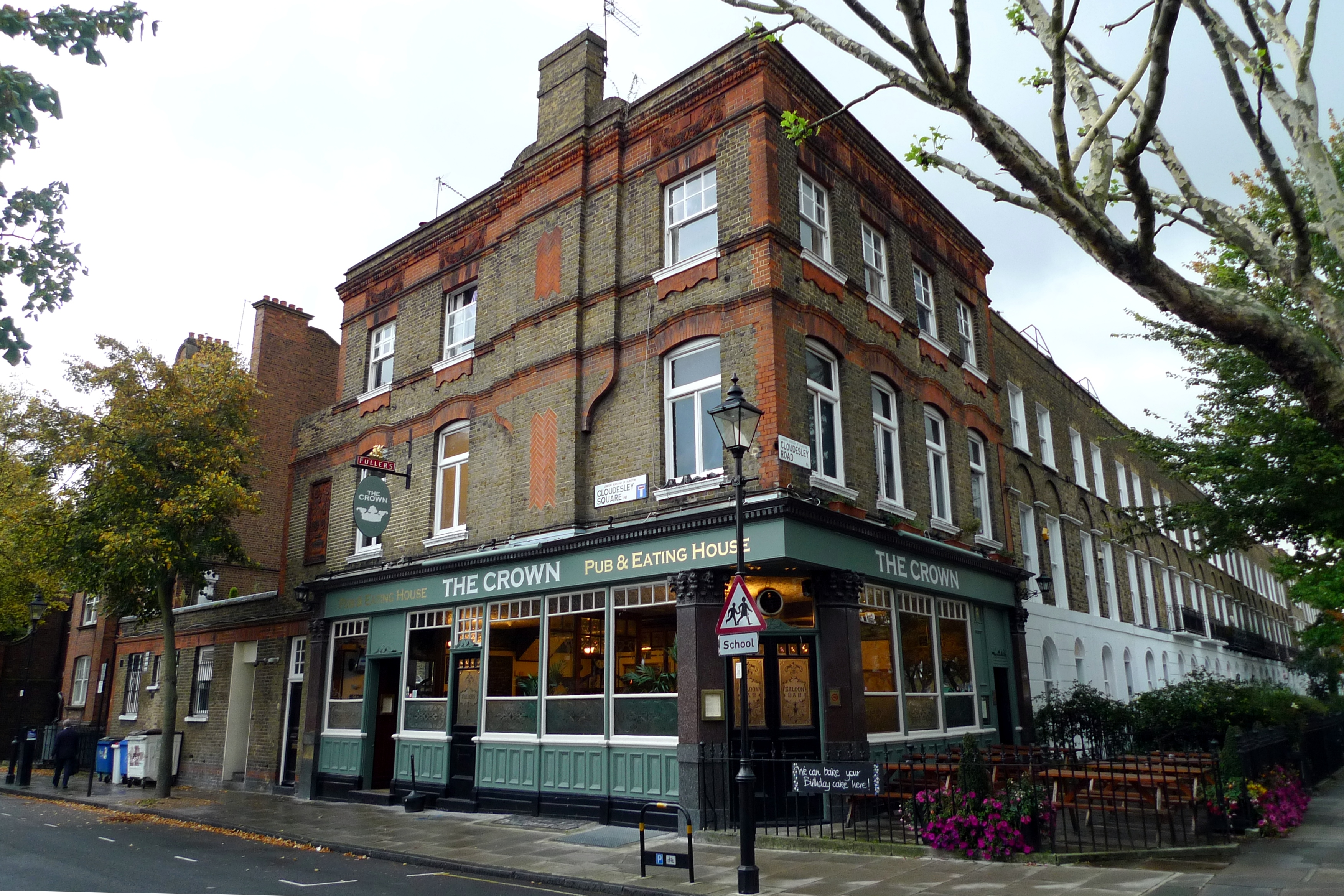 Lovely Fuller's pub just off the beaten trail in Islington. (View of interior.) (Photos of venison and Christmas pudding, and pork roast.) Address: 116 Cloudesley Road. Owner: Fuller Smith Turner (website). Links: London Pubology